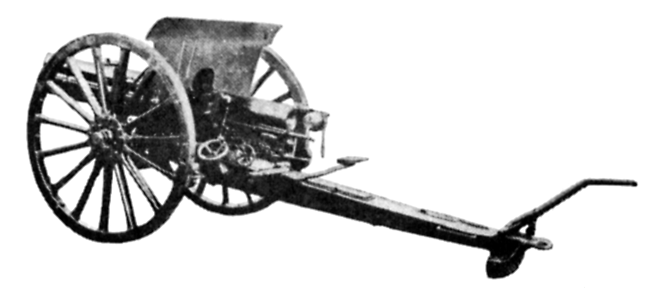 A Japanese Type 41 75 mm Cavalry gun. Effectively obsolete by the Second World War, but still used in limited numbers